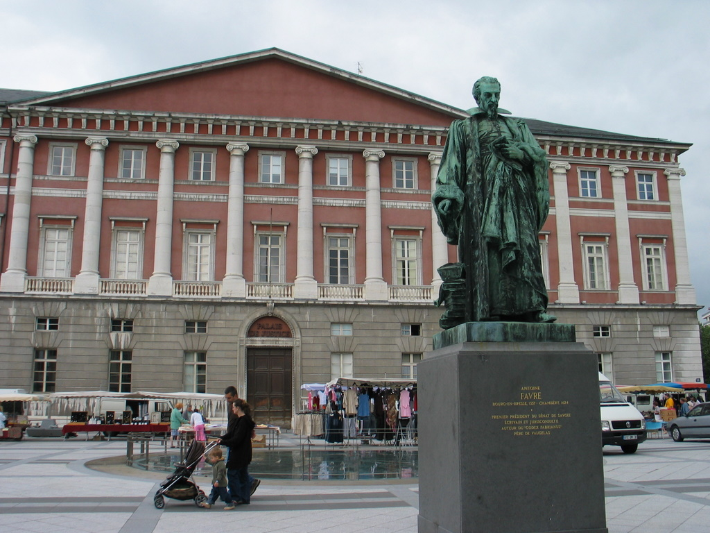 Chambery Palais de Justice.